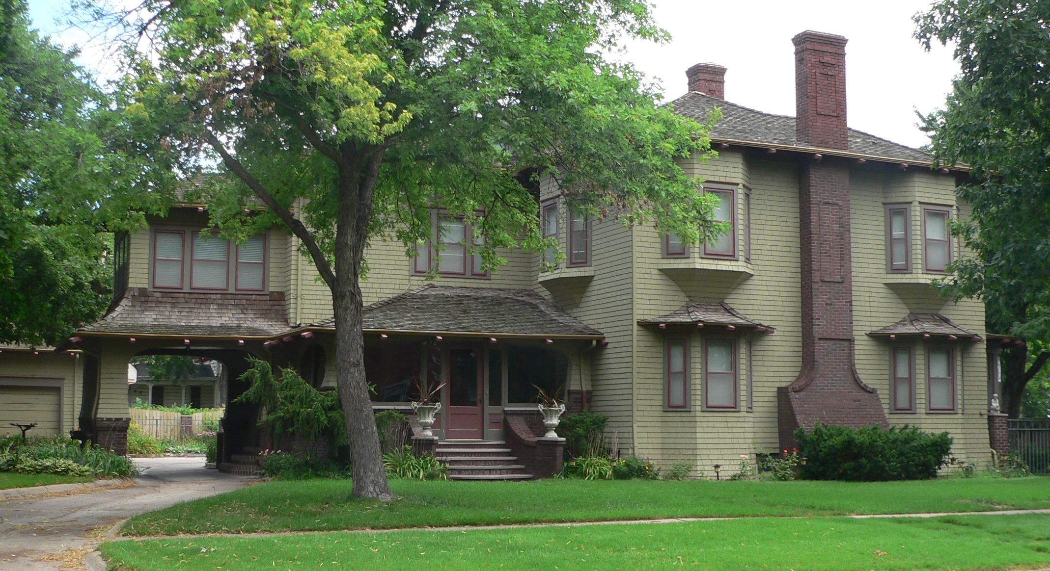 Glade-Donald house, located at 1004 W. Division in Grand Island, Nebraska; seen from the southwest. The house is listed in the National Register of Historic Places.